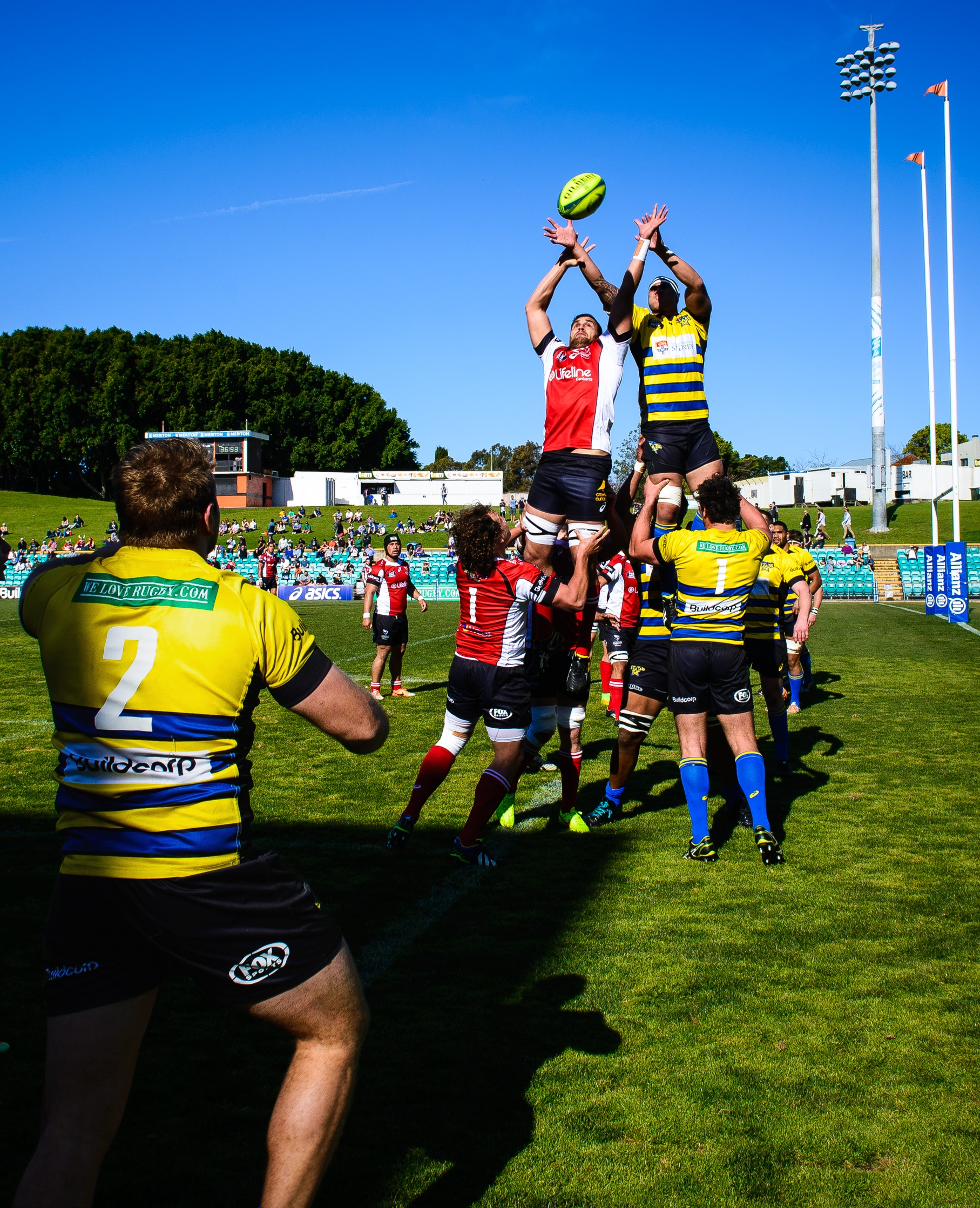 Sydney Stars versus Canberra Vikings NRC Round 5